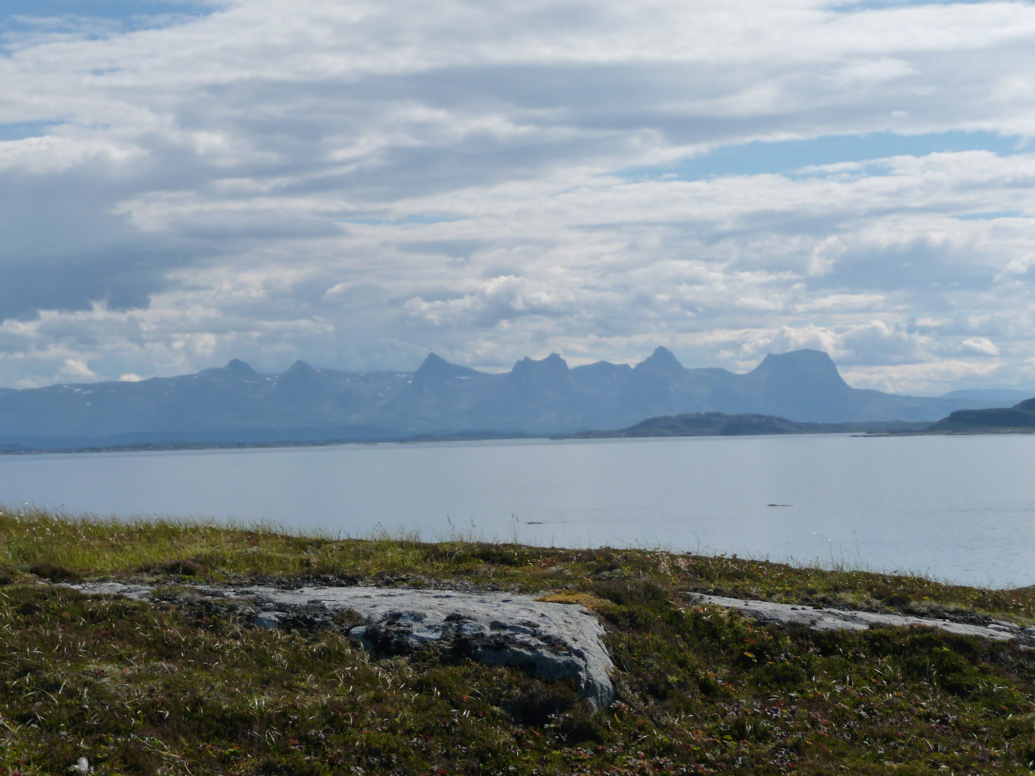 Gåsværfjorden med Syv søstre og Varøya i Bakgrunn